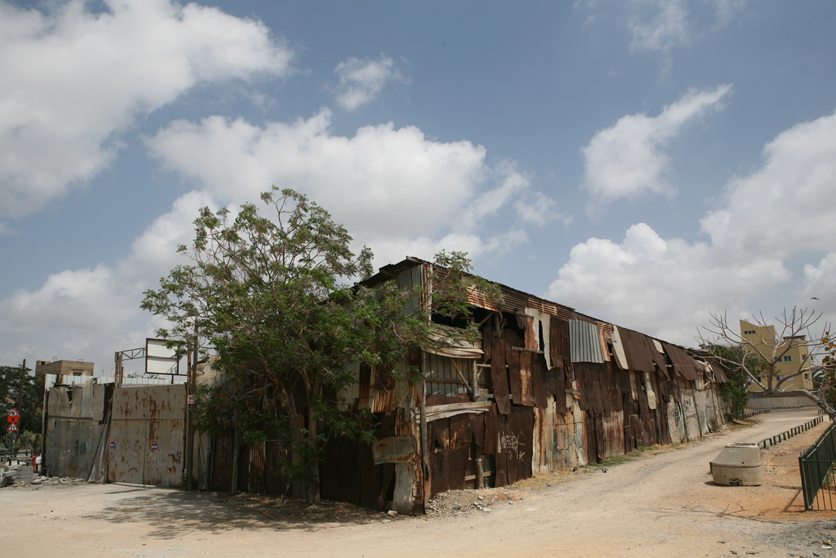 Tin shack in More-Nevochim St., Shapira neighborhood, Tel-Aviv Jaffa